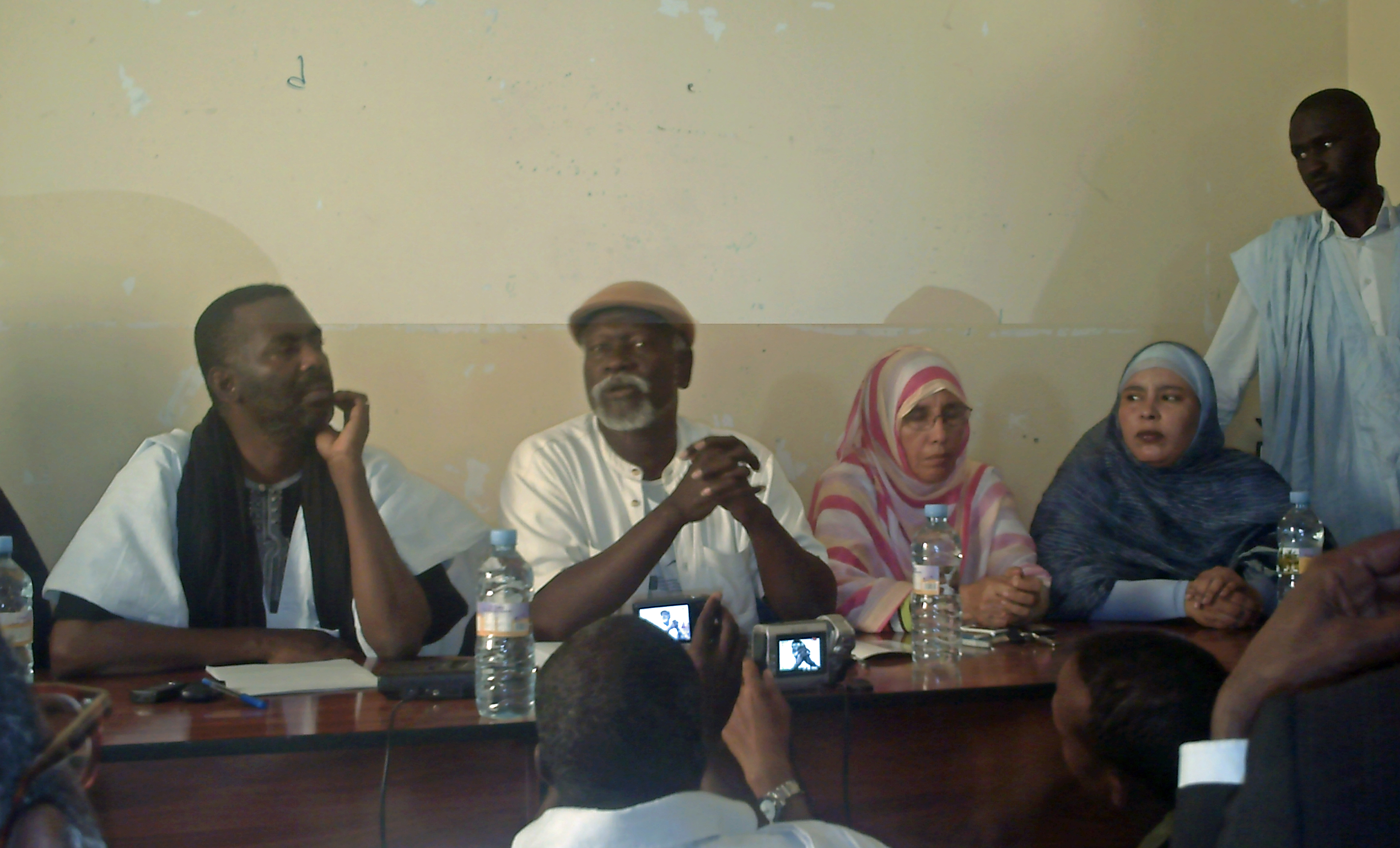 [Jemal Oumar] Mauritanian rights defenders called for enforcing the country's anti-slavery law.